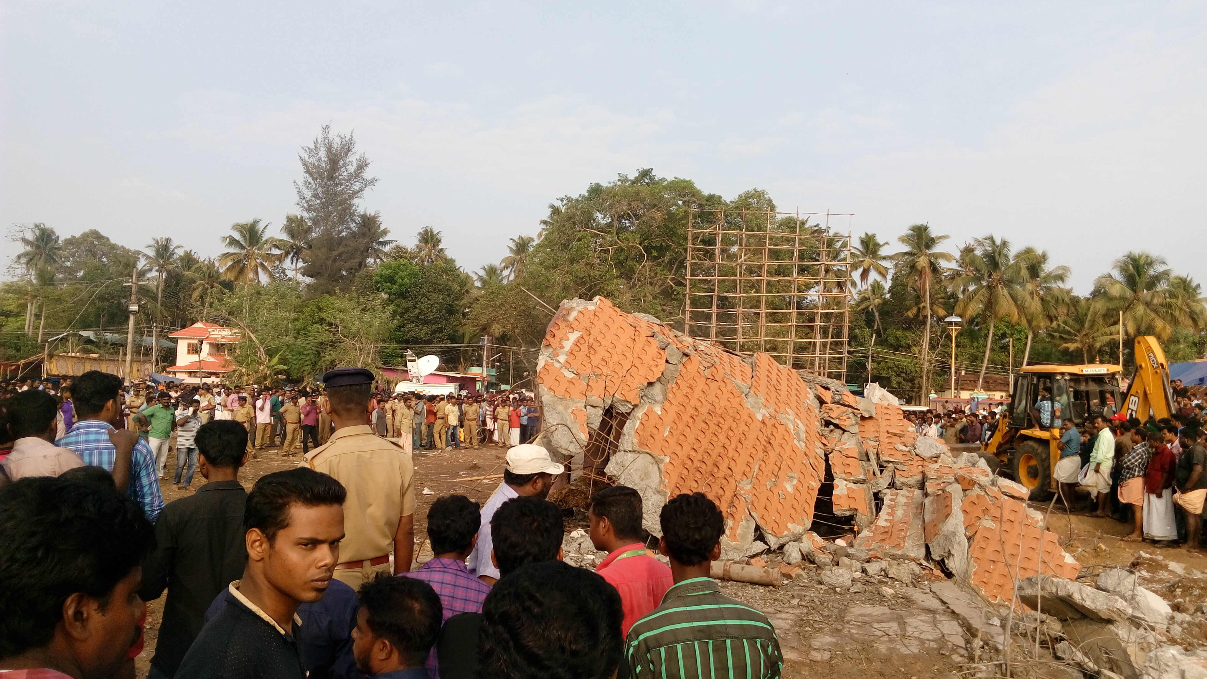 2 conceret buildings got collapsed during the fireworks mishap happened at Paravur Puttingal Temple in Kollam, India on 10 April 2016